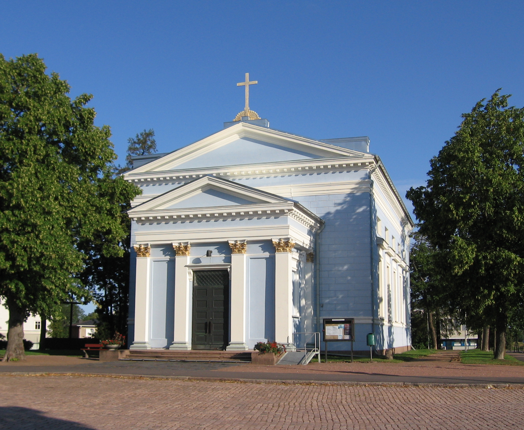 Saint John Church (Johanneksen kirkko) in Hamina, Finland